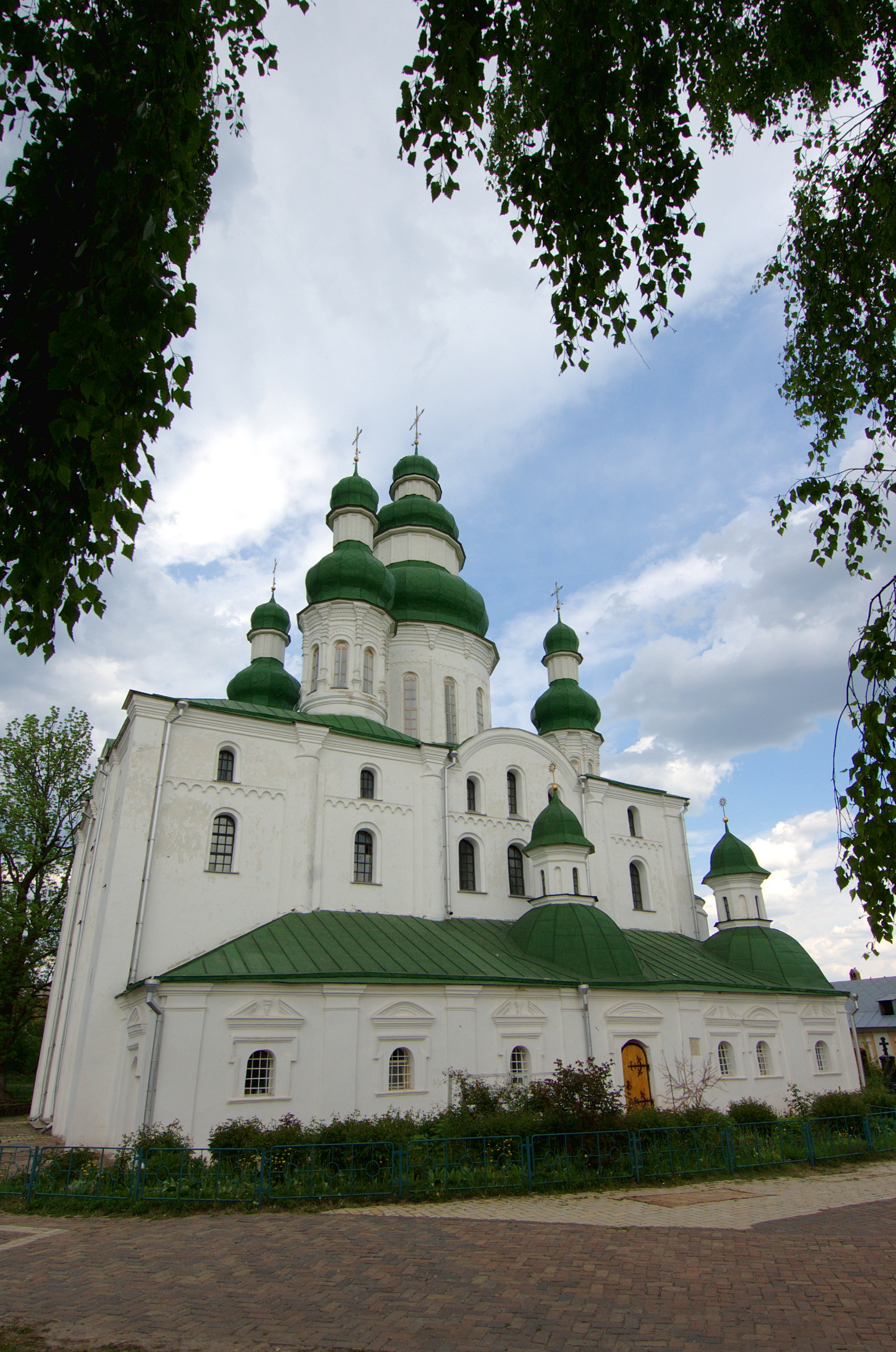 Chernigov. Eletsky Monastery. Dormition Cathedral